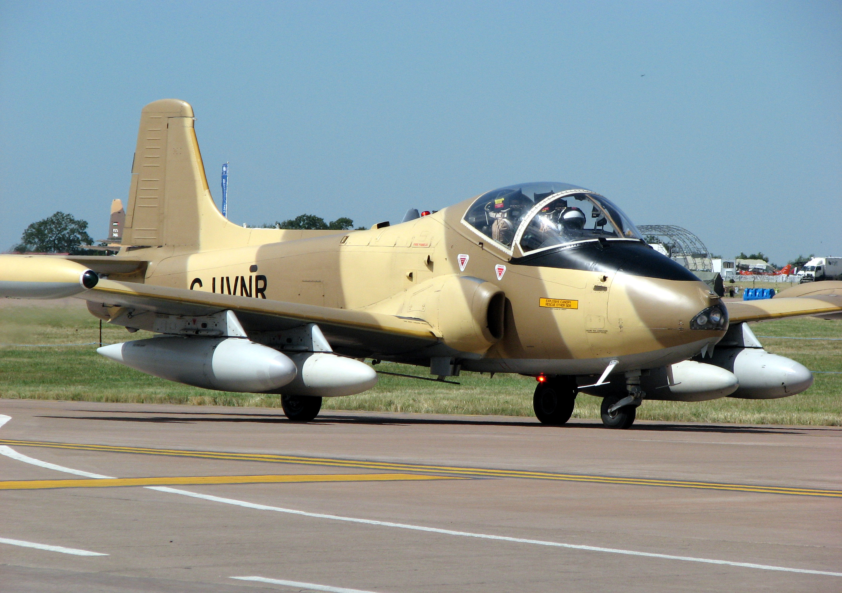 Privately-owned BAC 167 Strikemaster Mk87 (G-UVNR) taxiing for takeoff at the Royal International Air Tattoo, Fairford, Gloucestershire, England. Photographed by Adrian Pingstone on July 17th 2006 and released to the public domain.